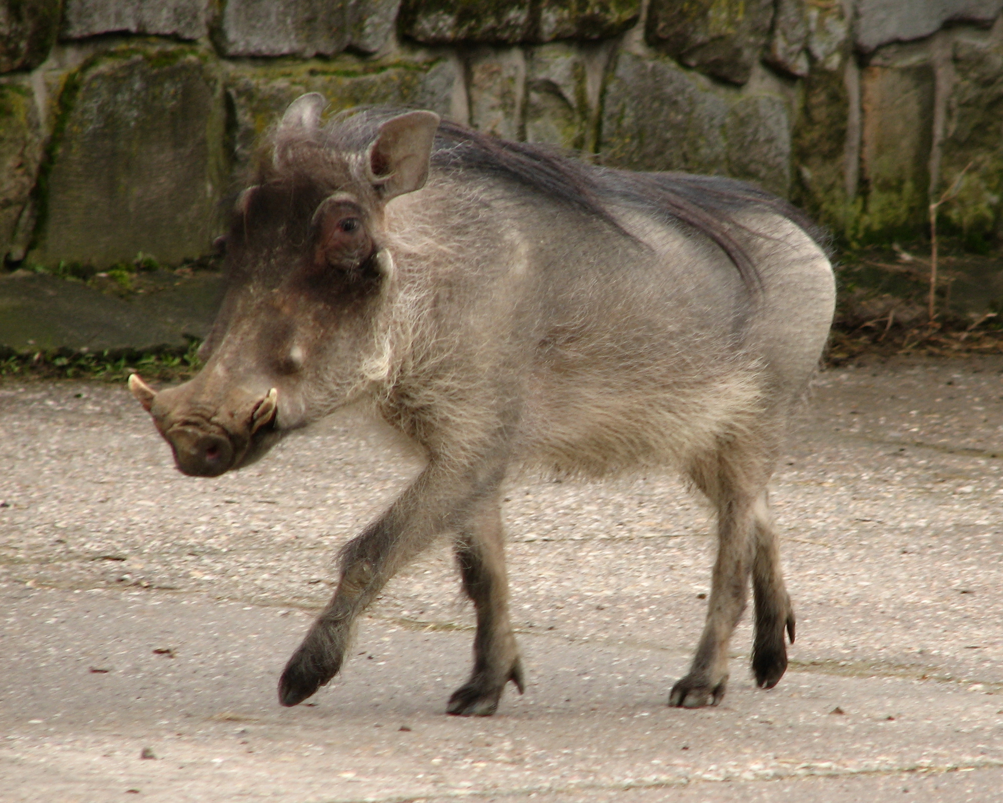 Warthog in ZOO Dvůr Králové, Czech Republic